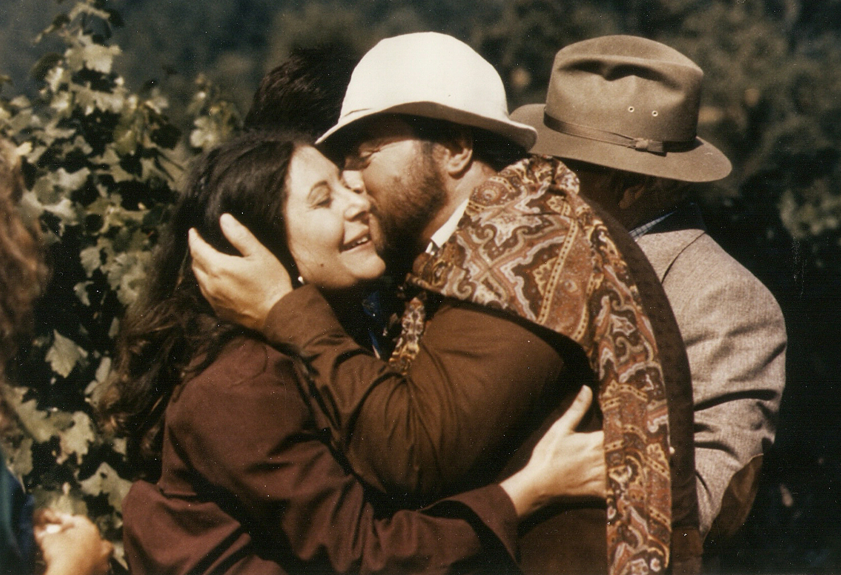 Luciano Pavarotti embraces Karen Kondazian on set of Yes, Giorgio - 1981.